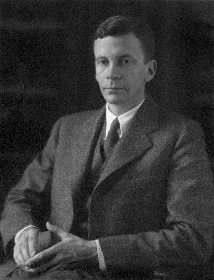 Portrait of Mark van Doren